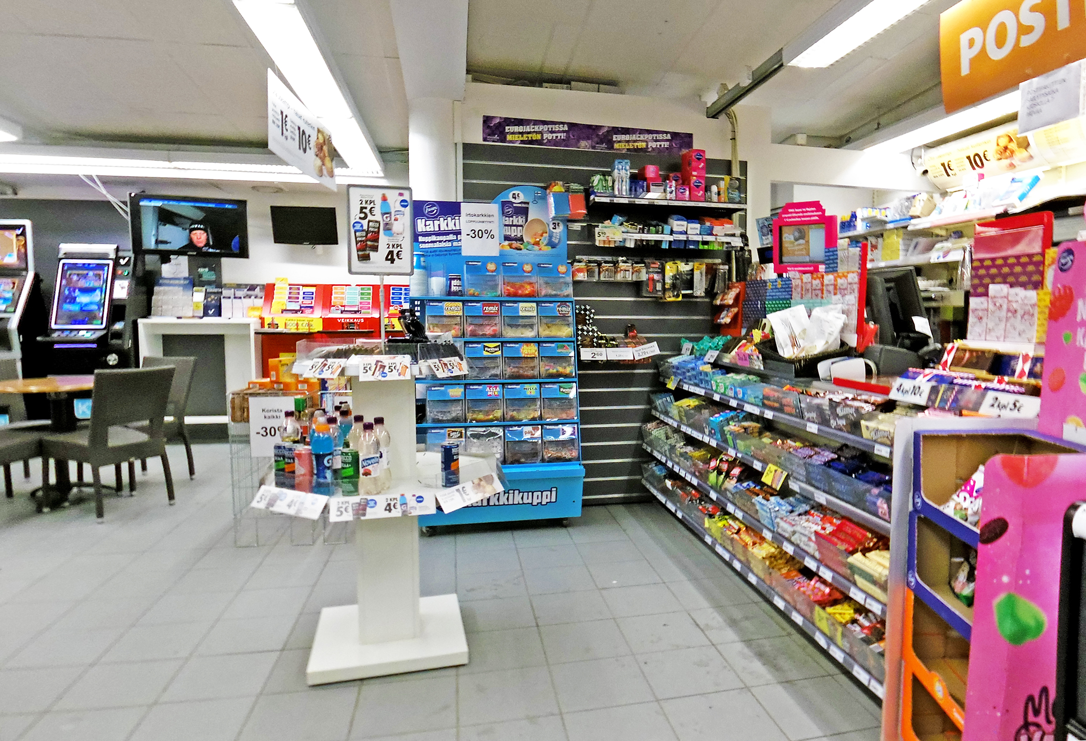 R-Kioski Voionmaanakatu in Jyväskylä.